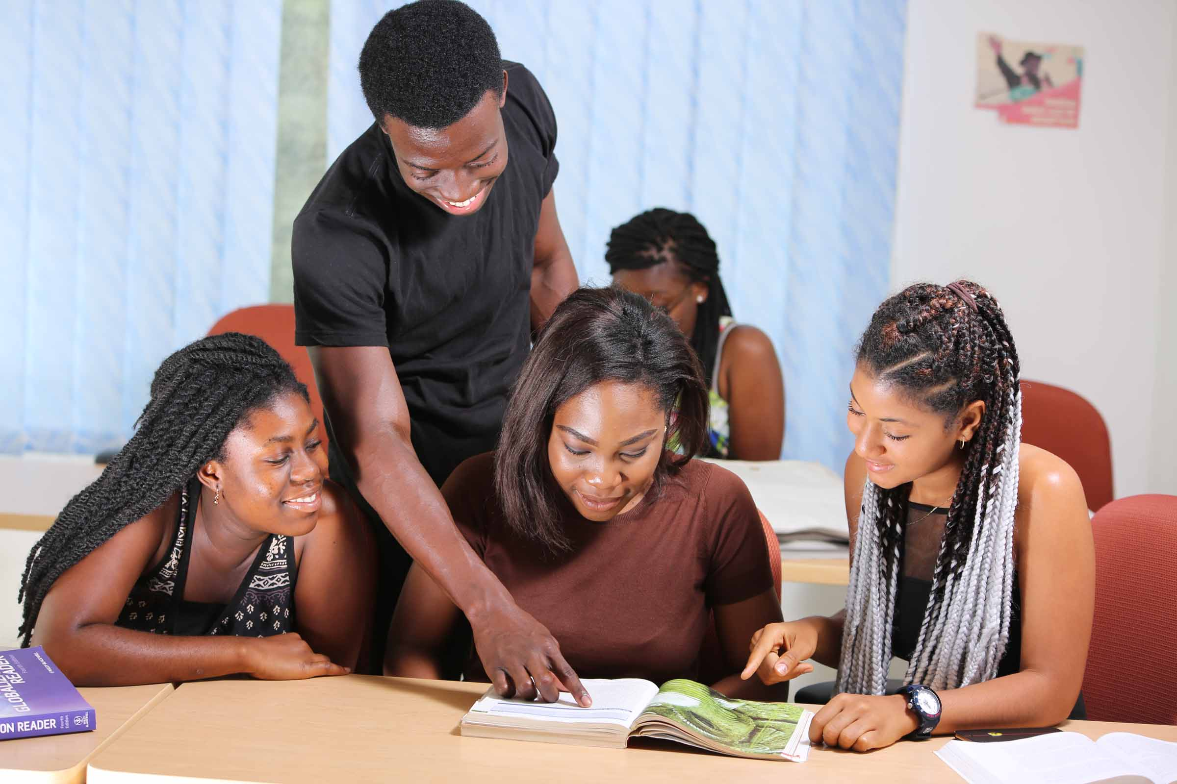 Webster Ghana Undergraduate Students